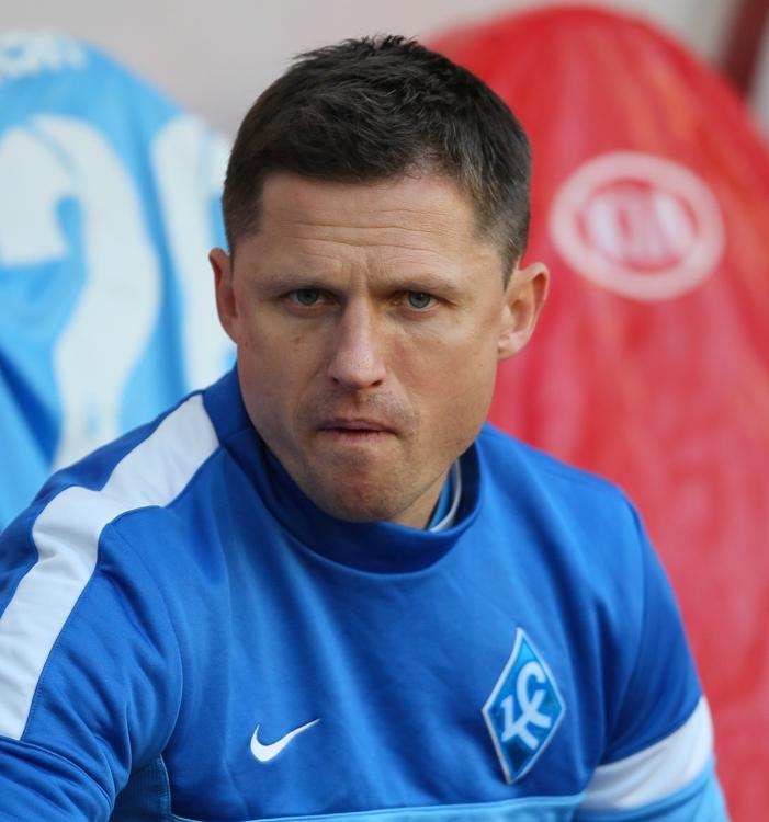 Igor Semshov with FC Krylia Sovetov Samara.